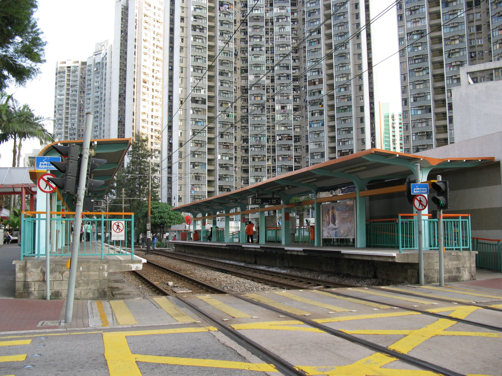 輕鐵 建生站 Kin Sang Stop, Light Rail